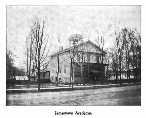 Jamestown Academy - 1900 photograph. From page 20.